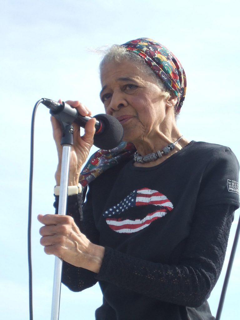 Former Wisconsin politician Vel Phillips.